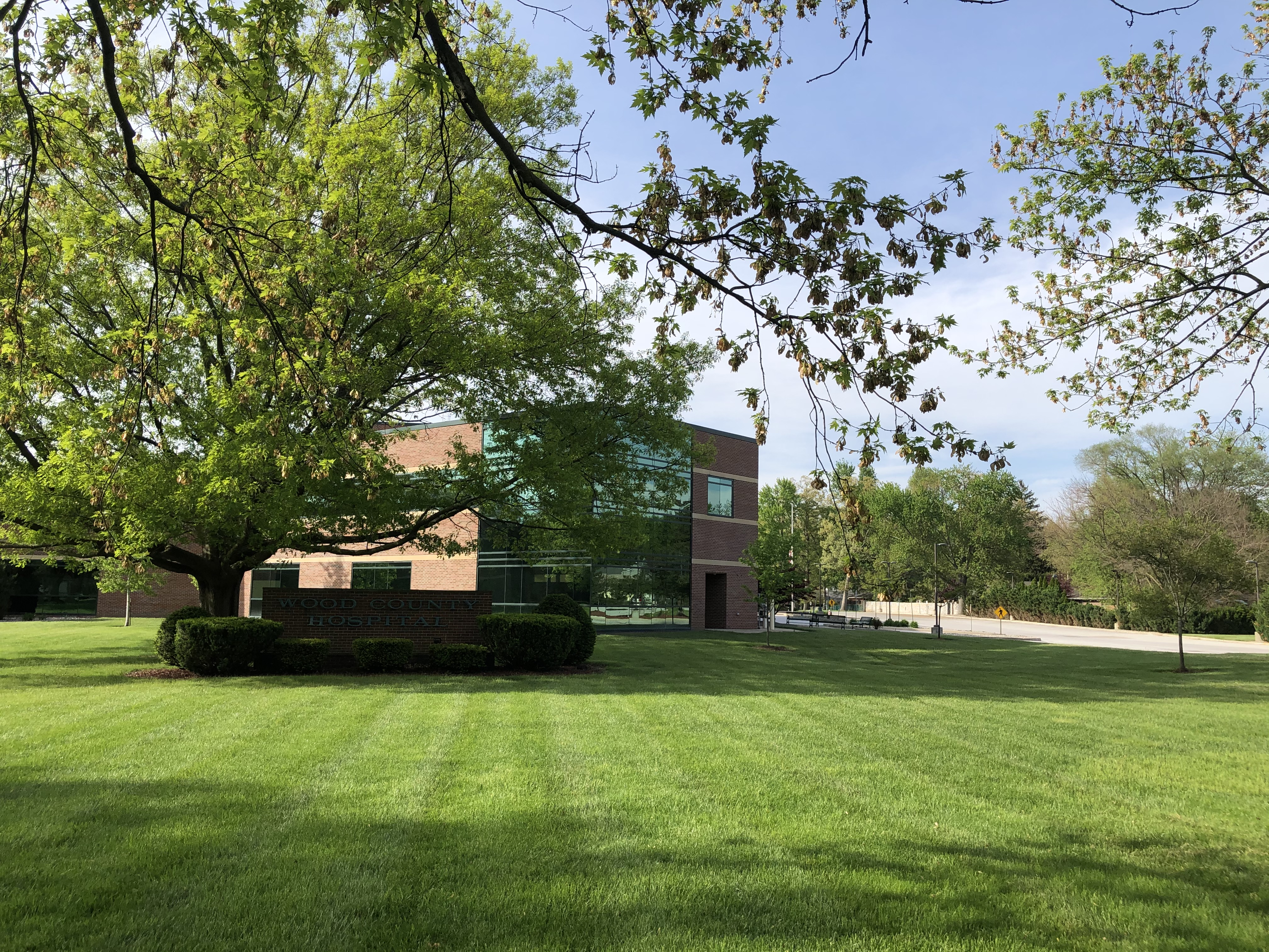 The Wood County Hospital in Bowling Green, Ohio during the COVID-19 pandemic.